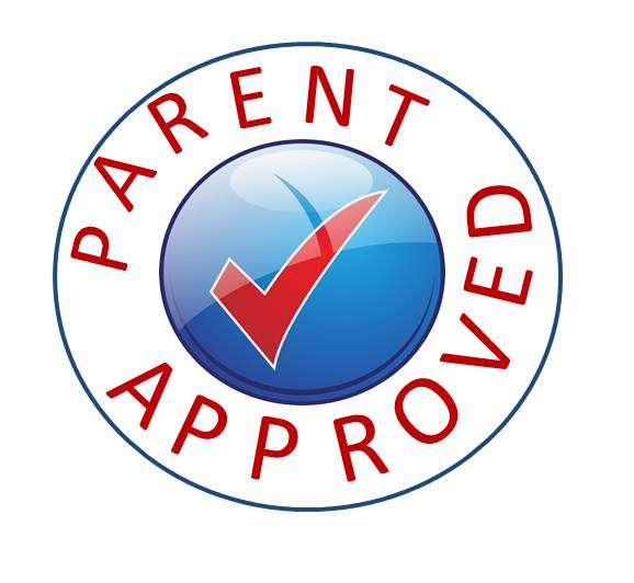 Parent Approved mark for use on the autism directory site